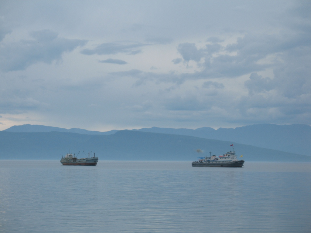 Hubsugul lake 9